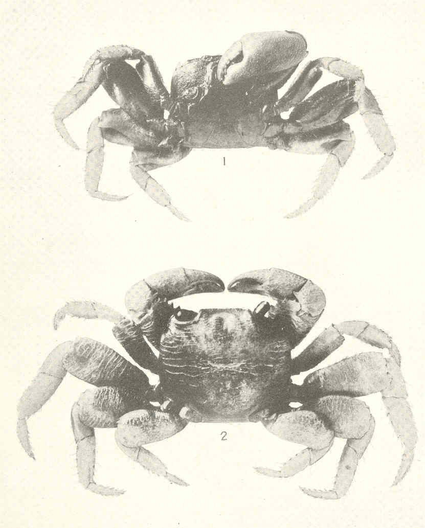 Geograpsus lividus Subject: Crabs, Geograpsus Tag: Shellfish